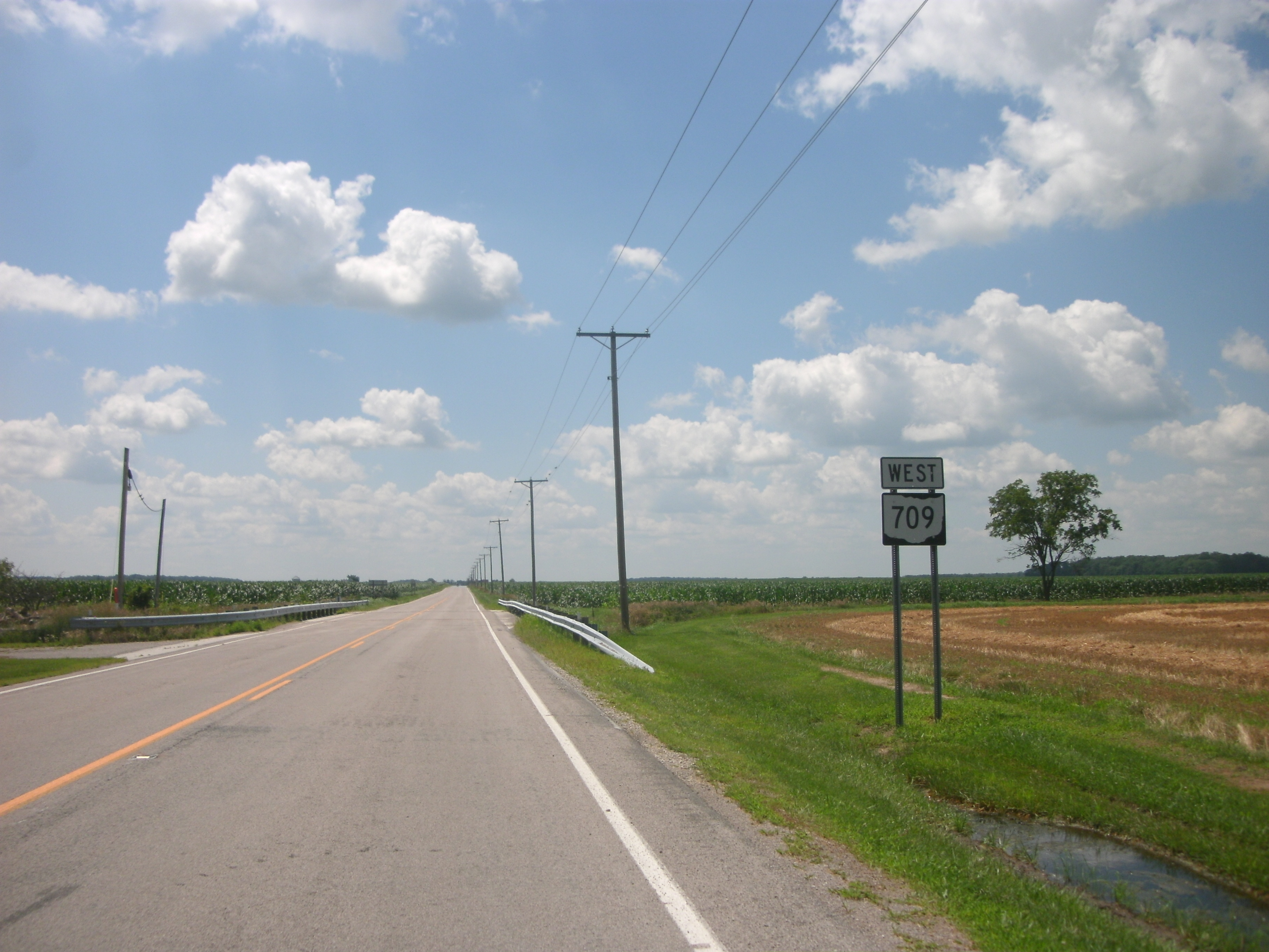 State Route 709 heading west from State Route 116 southwest of Venedocia, Ohio.